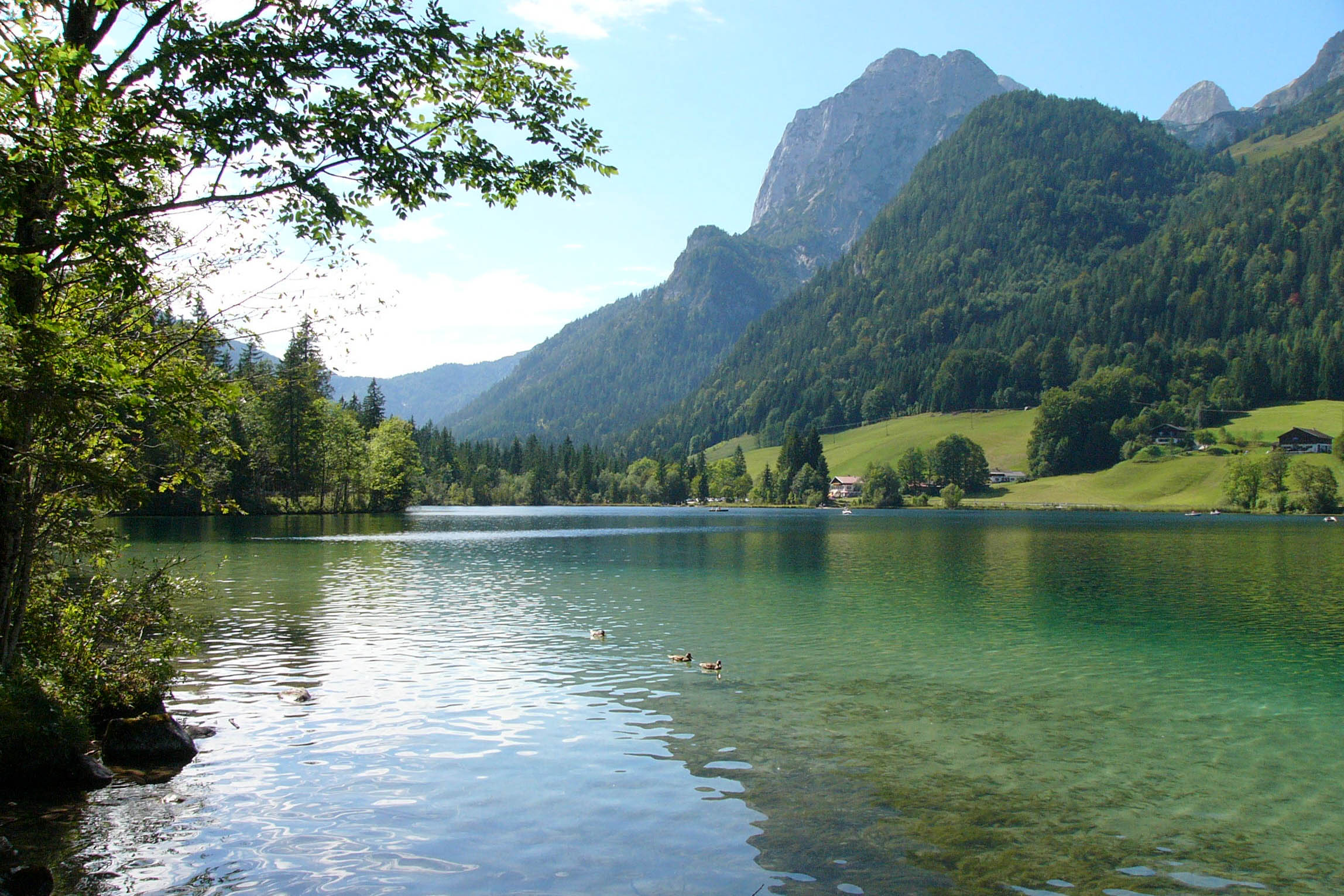 Hintersee, lake near Ramsau in Bavaria, Germany